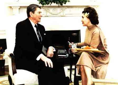 Interview of President Ronald Reagan by White House correspondent Trude Feldman.